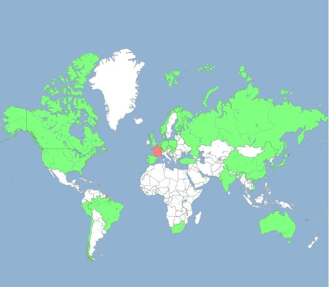 Echange programs of IAE Aix